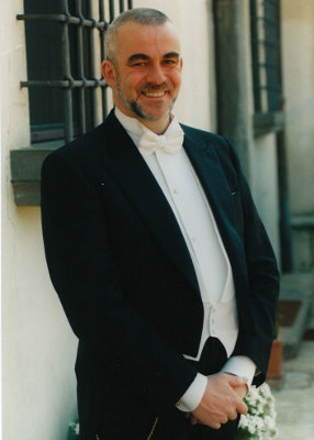 Profile pictures of Giacomo Prestia, Italian opera singer (bass). Small version.